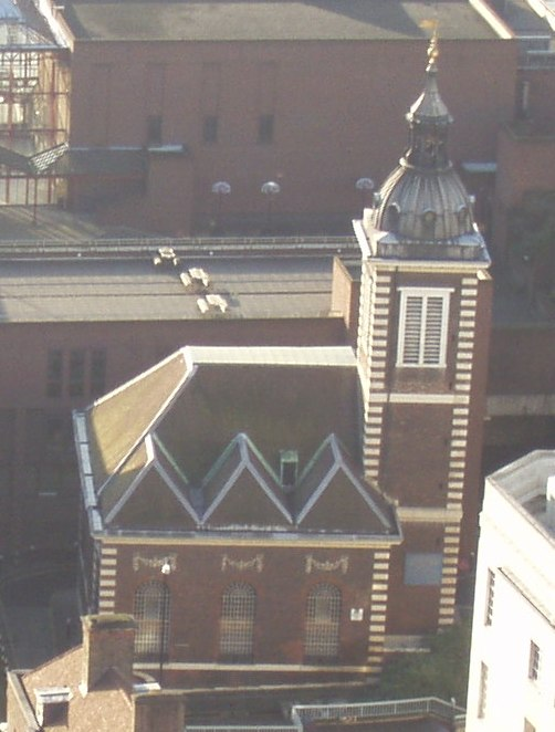 St Benet Paul's Wharf taken from atop the dome of St Paul's Cathedral London.